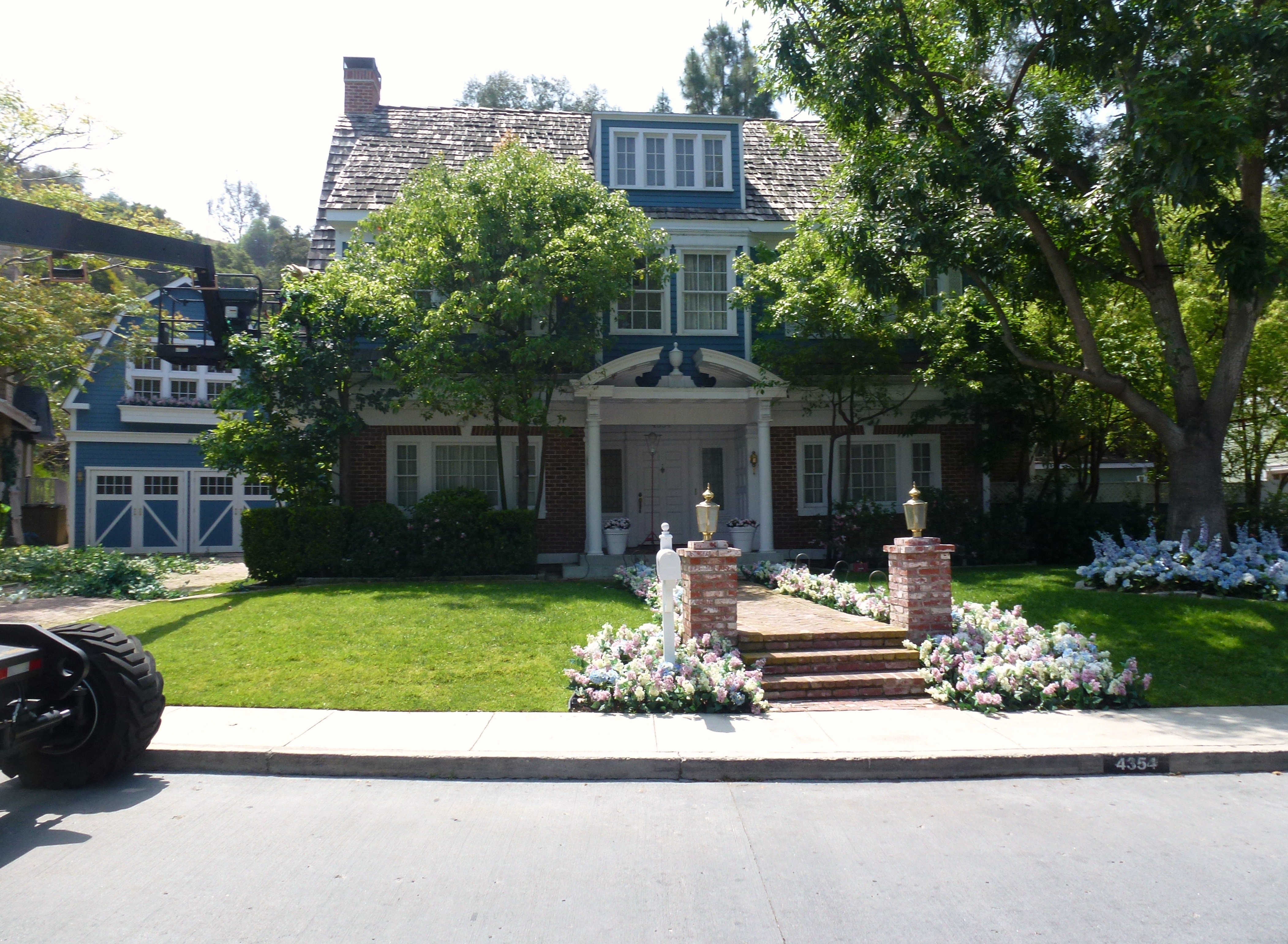 Colonial street in Studio Tour 4354 Wisteria Lane - Bree Van de Kamp, in Universal Studios Hollywood